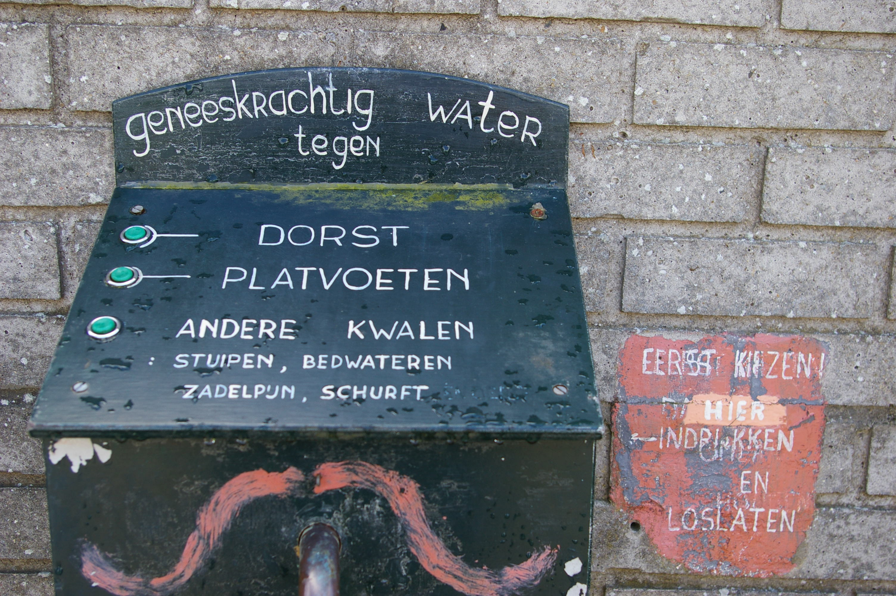 Seen on the Pieterpad hiking route in Windraak, Limberg, the Netherlands. This water is said to be a cure for thirst, flat feet, convulsions, enuresis, saddle pain and scabies.